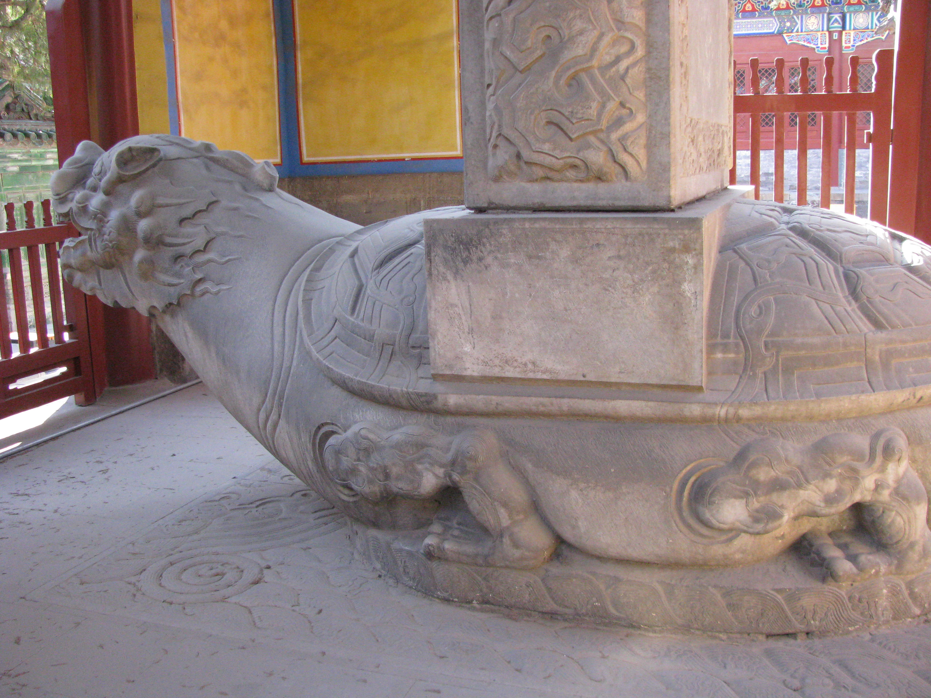 Bixi in the Confucius Temple, Beijing, China.